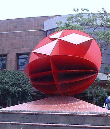 Image of "Leonardita", sculpture of the "Anexo de Ingenieria"